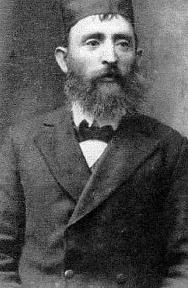 Shlomo Yakov Rabinovitch(1872-1942) - Polish architect who designed the Great Synagogue of Bialystok in 1909-1913